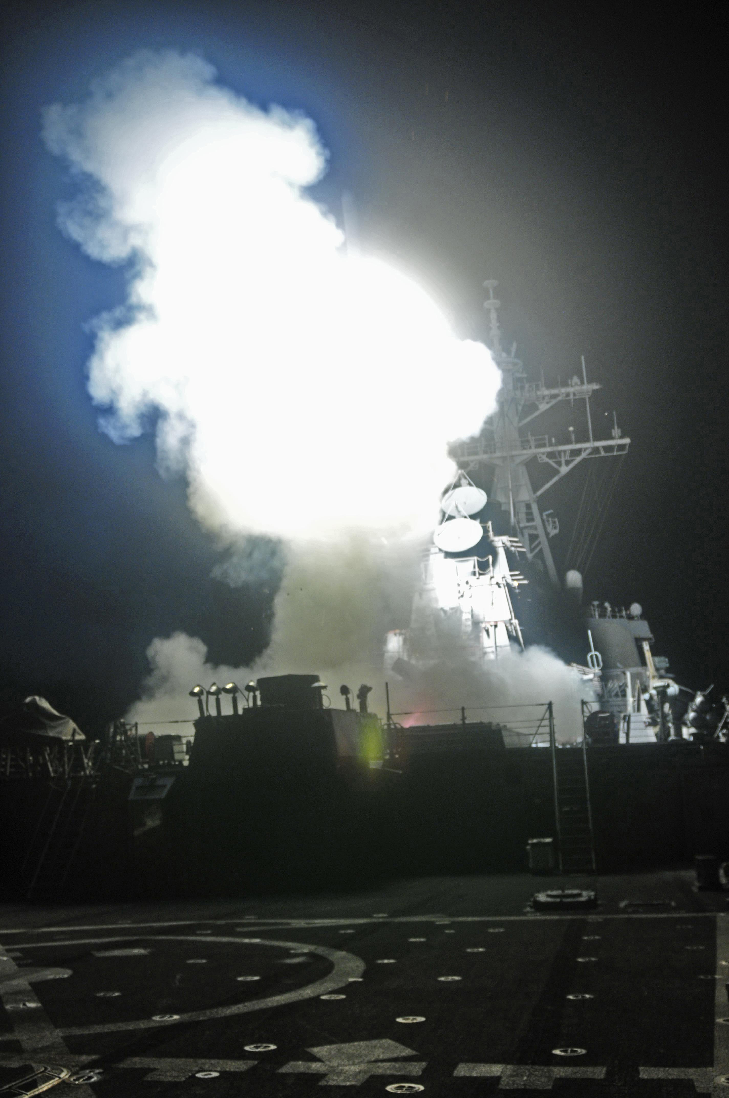 110319-N-XO436-134 MEDITERRANEAN SEA (March. 19, 2011) The Arleigh Burke-class guided-missile destroyer USS Barry (DDG 52) launches a Tomahawk missile in support of Operation Odyssey Dawn. This was one of approximately 110 cruise missiles fired from U.S. and British ships and submarines that targeted about 20 radar and anti-aircraft sites along Libya's Mediterranean coast. Joint Task Force Odyssey Dawn is the U.S. Africa Command task force established to provide operational and tactical command and control of U.S. military forces supporting the international response to the unrest in Libya and enforcement of United Nations Security Council Resolution (UNSCR) 1973.